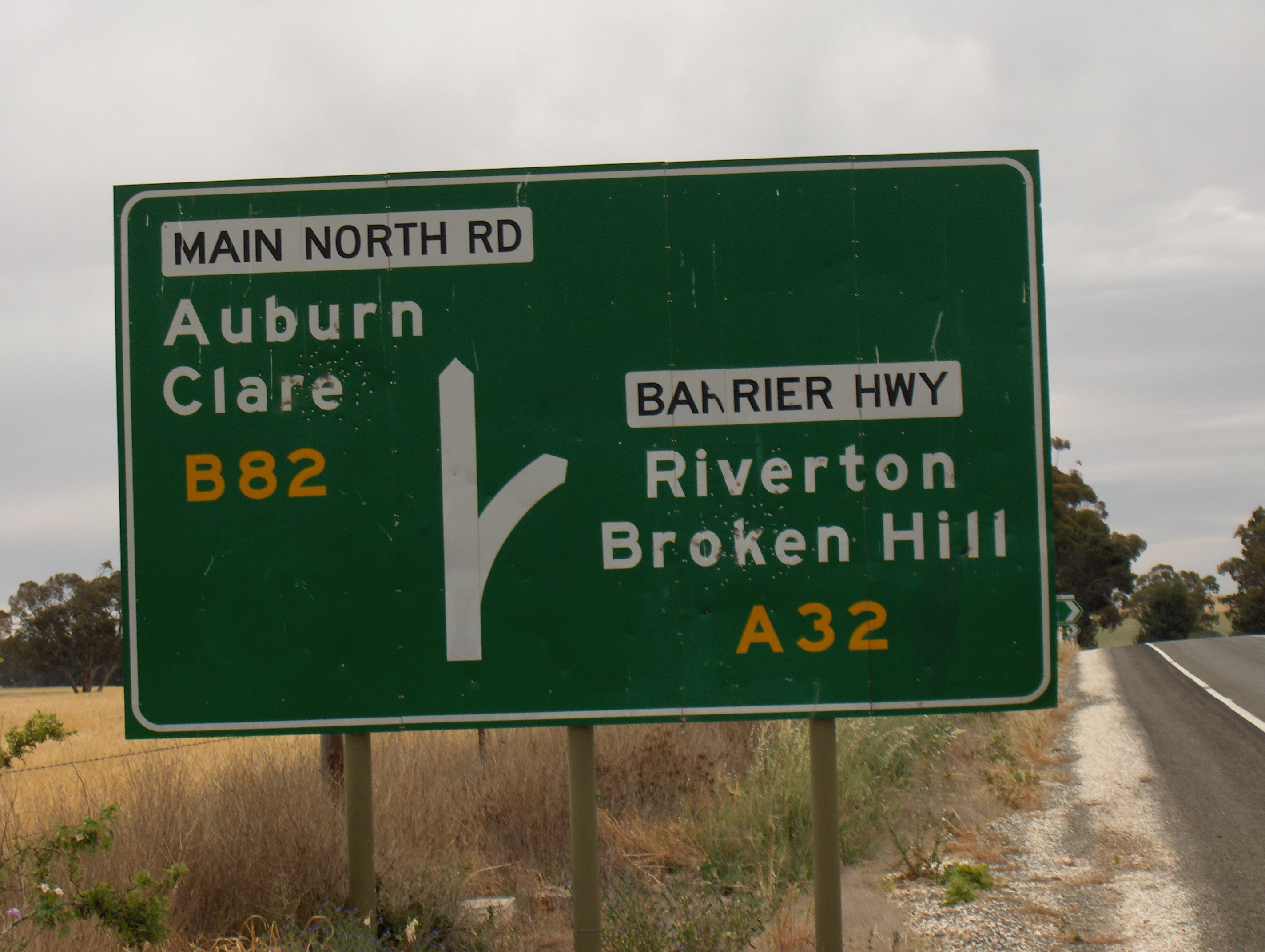 Road sign at Giles Corner, the southern end of the Barrier Highway, which branches off of the Horrocks Highway (formerly Main North Road).